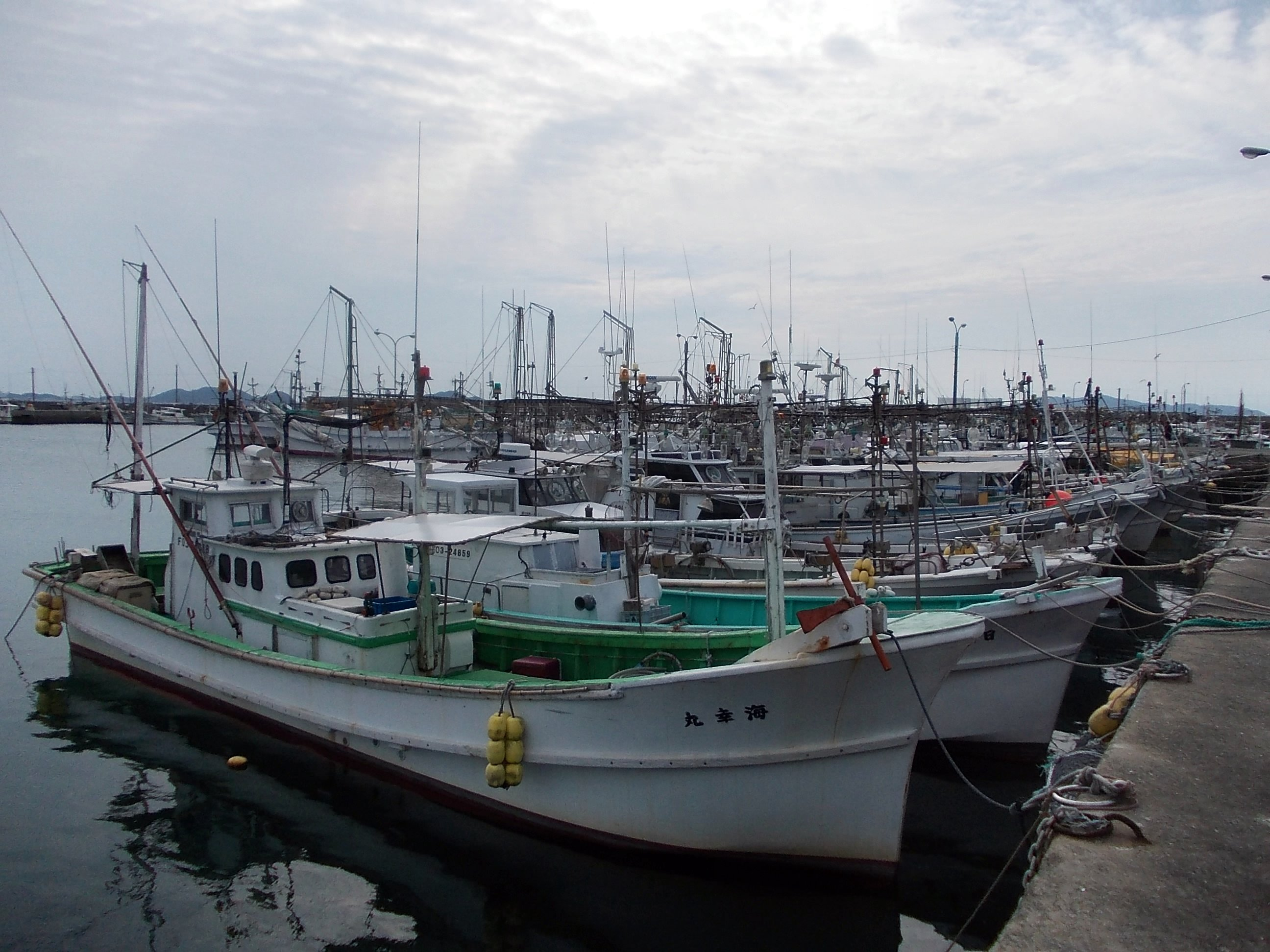 Squid-fishing vessels mooring in Kanezaki Port, Munakata, Fukuoka, Japan.